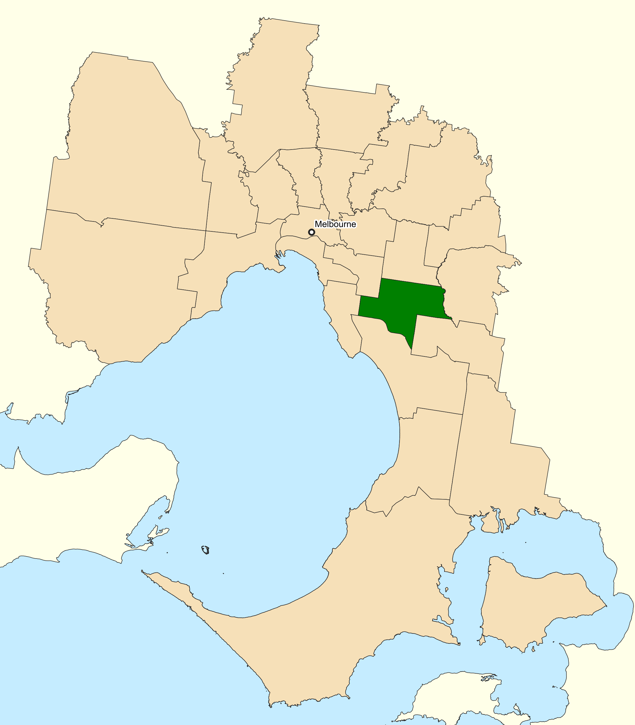 Location of the Australian federal electoral division of Hotham (dark green) in Greater Melbourne, Victoria as of the 2019 Australian federal election. Incorporates or developed using Administrative Boundaries ©PSMA Australia Limited licensed by the Commonwealth of Australia under Creative Commons Attribution 4.0 International licence (CC BY 4.0).